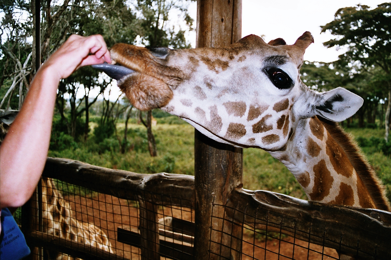 Feeding giraffe in the Giraffe Center outside Nairobi, Kenya. Picture taken by myself, H. Dahlmo 19:09, 1 March 2006 (UTC) september 2002.